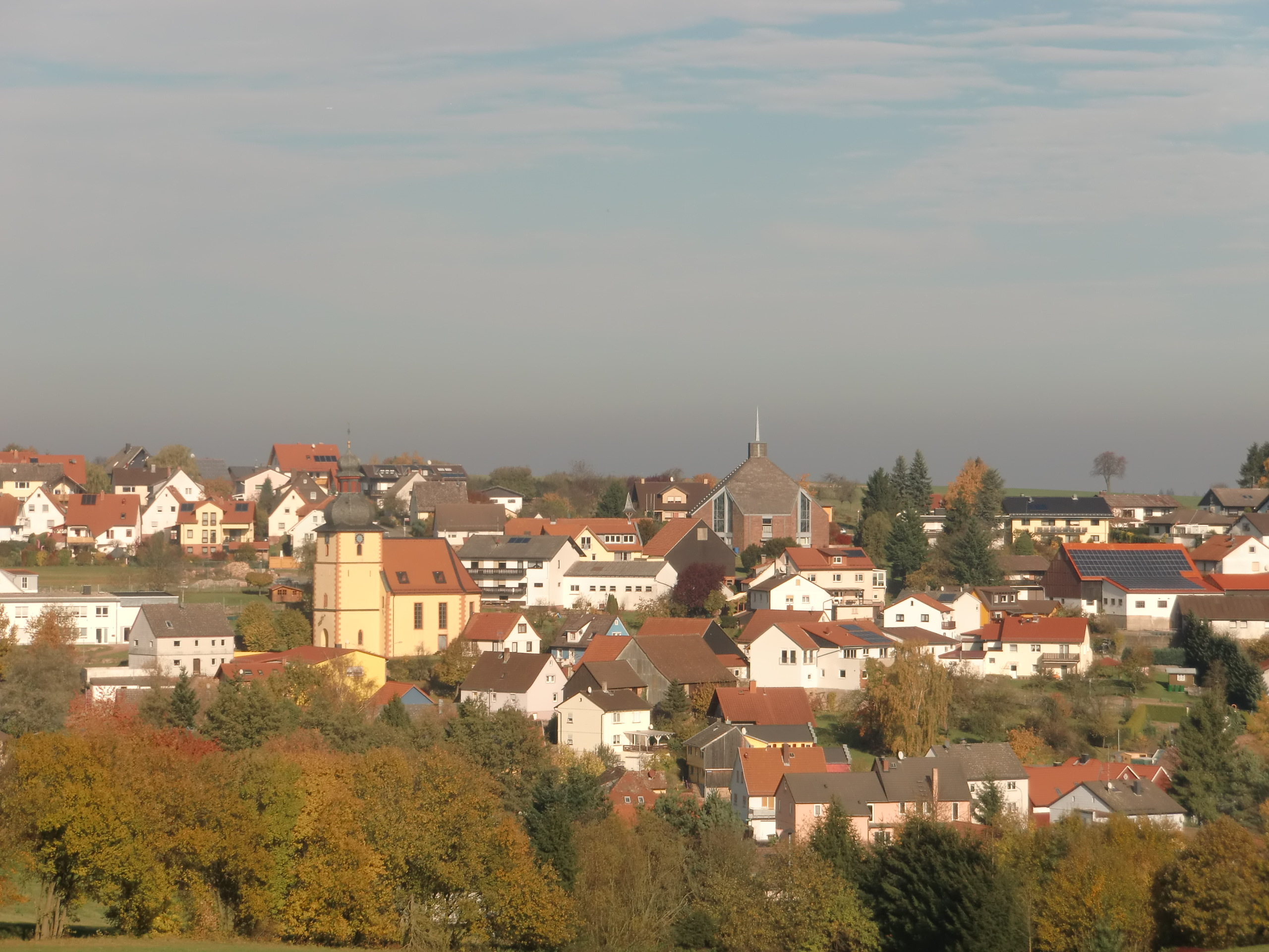 The village of Vielbrunn, Hesse, Germany